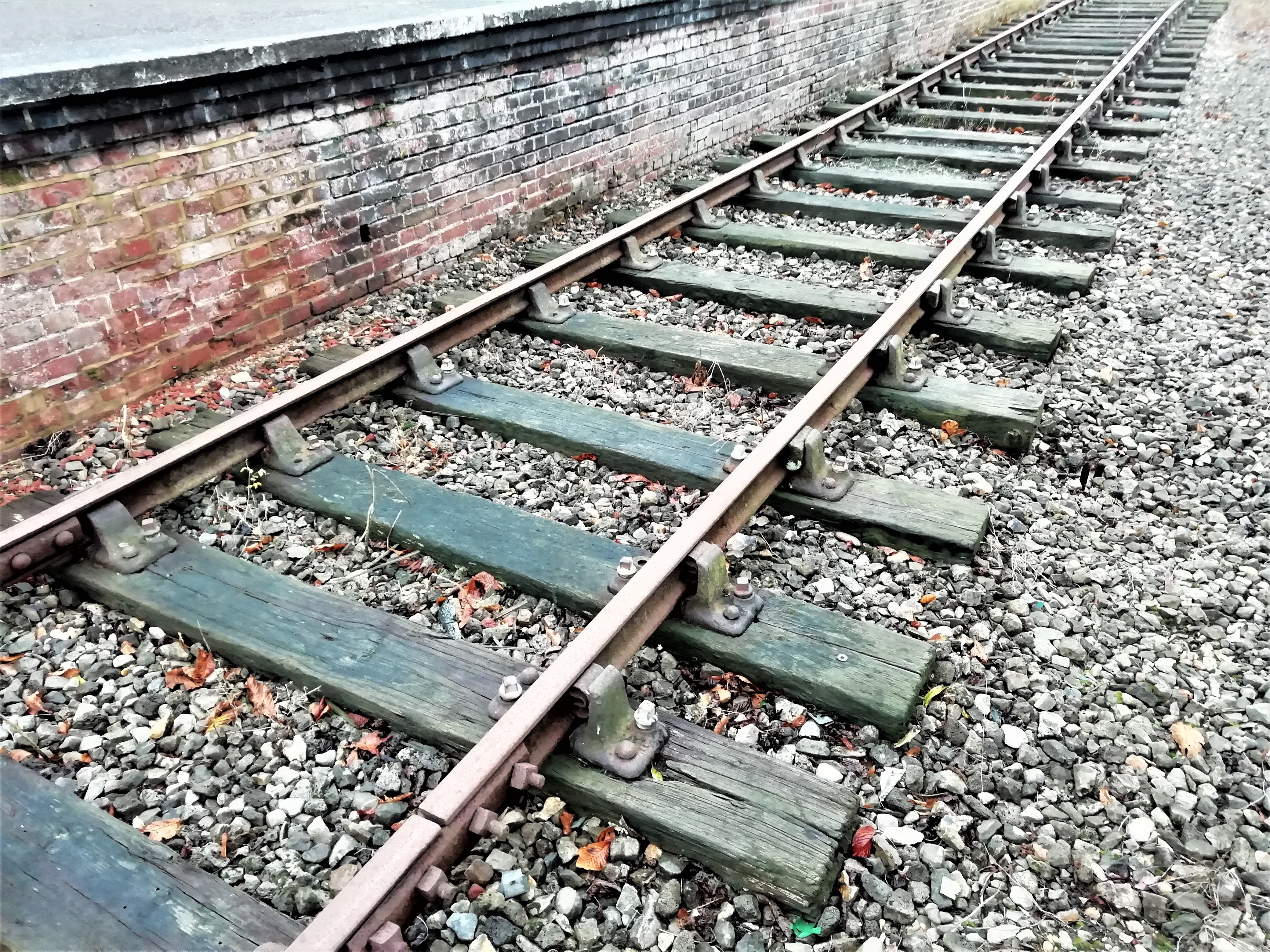 Double-headed rail of the Great Eastern Railway, displayed at the County School railway station of the Mid-Norfolk Railway.